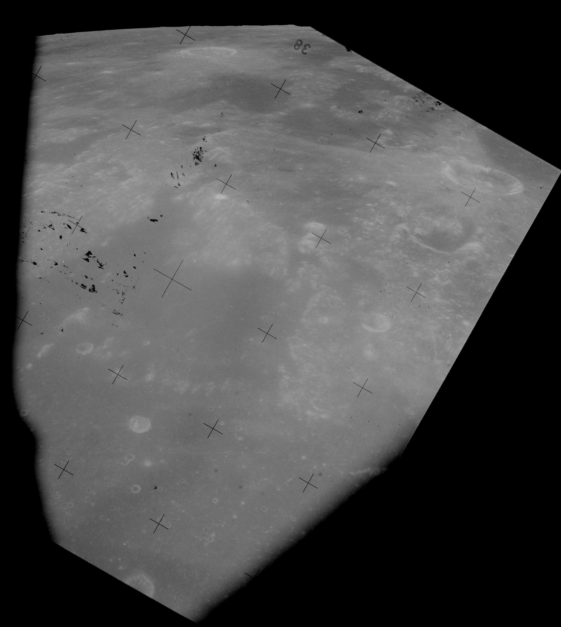 Apollo 15 Hasselblad image from film magazine 90/PP. Shows Sinus Honoris, Menelaus crater, and Manilius crater in left background. Brightness reduced 60% and contrast increased 60%, rotated 30 degrees to normalize the horizon, cropped, and file size reduced by 50% due to blurring of the original, using GIMP. Black splotches are present on the original.